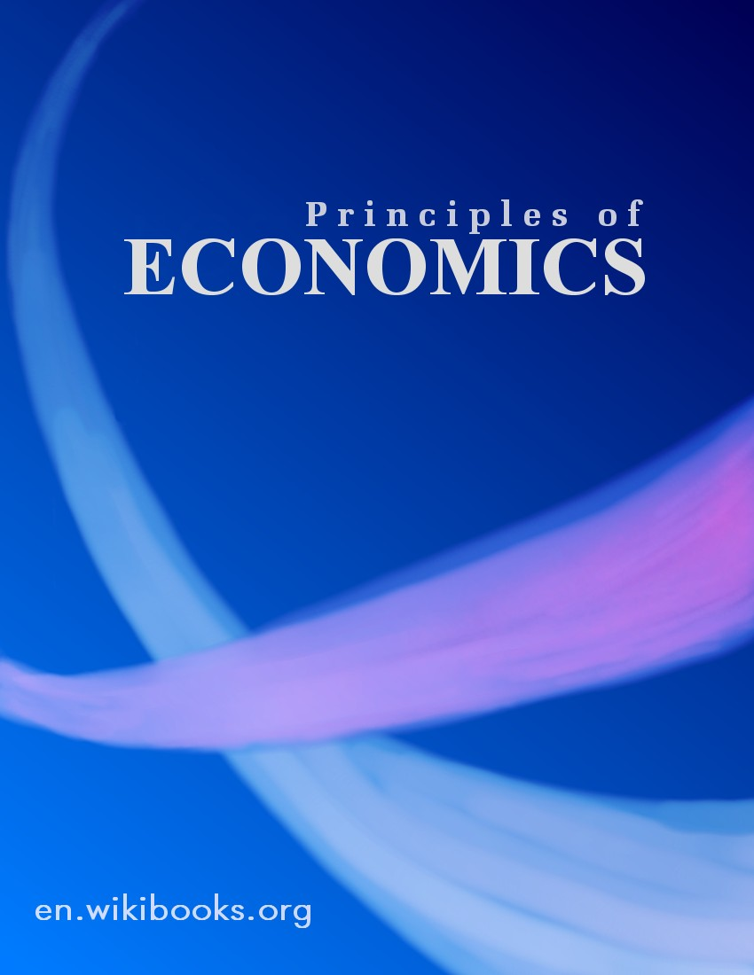 A cover I personally made for use in wikibooks. Art by: Endless melee.